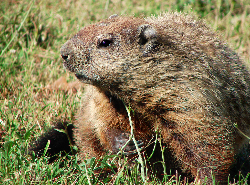 Woodchucks and groundhogs are the same thing, but 'woodchucks origins date back to a Native American name for the animal, "wuchak". Thus, I consider it a more correct term than "groundhog", which came second. Woodchucks, Marmota monax, are a type of marmot, which in turn is a type of ground squirrel. Yes, they're squirrels (so are prairie dogs and chipmunks). This guy was seen in Maryland. They're EVERYWHERE on base. This photo is also featured in the Encyclopedia of Life